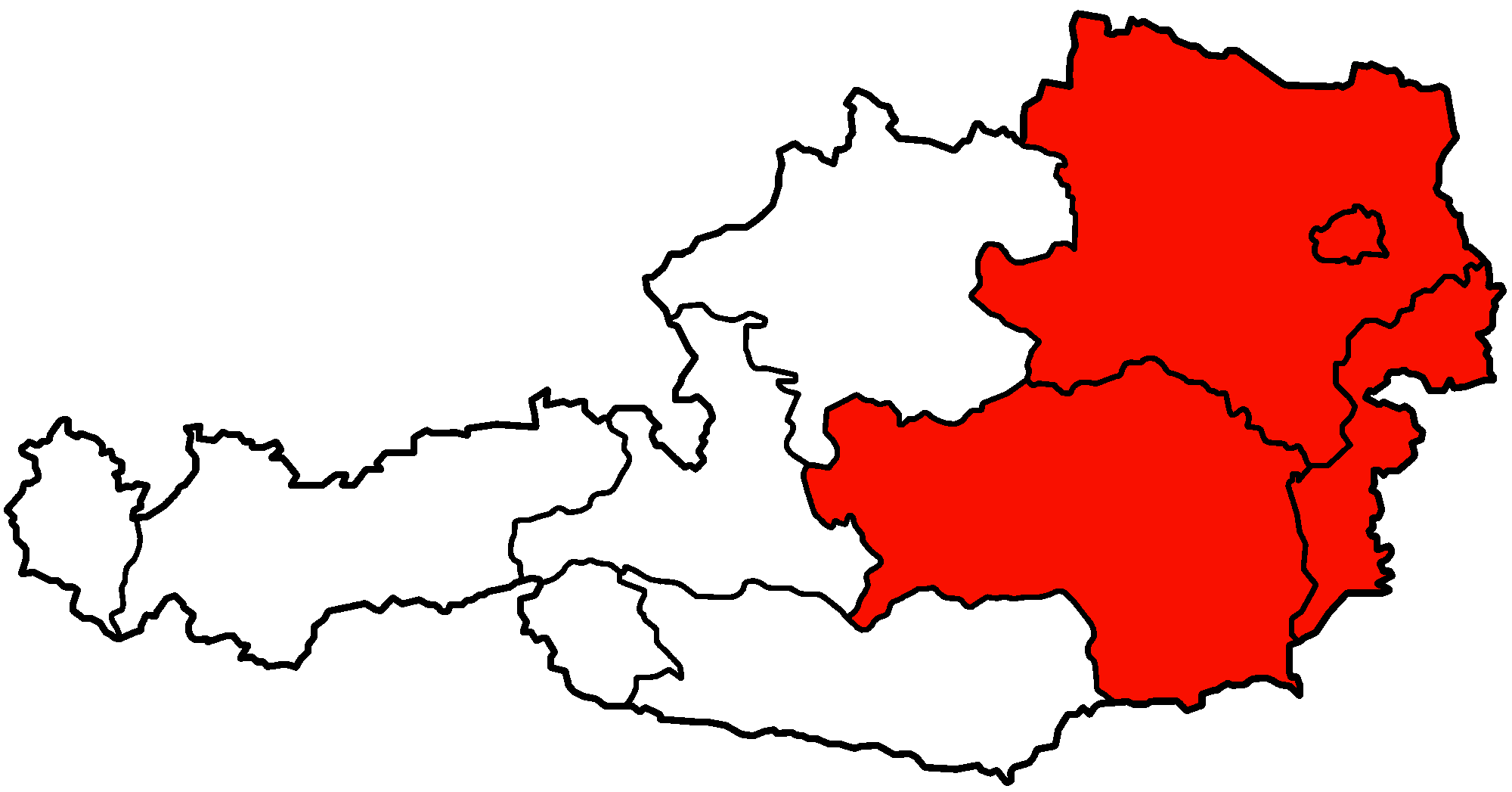 Austrian Armed Forces I Army Corps Area of Command